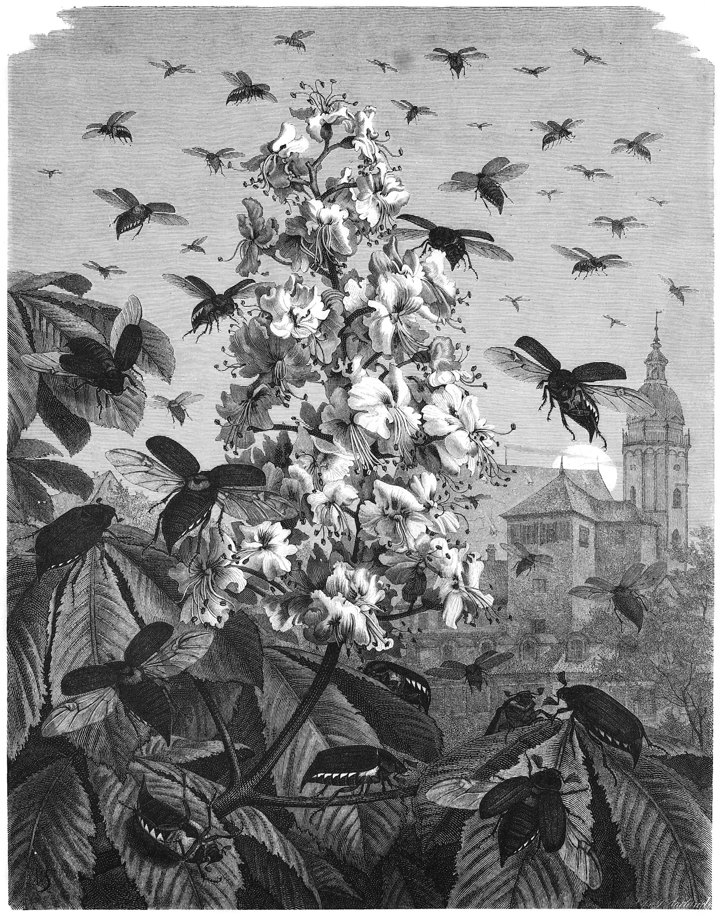 caption: "„Maikäfer, flieg!“Originalzeichnung von Emil Schmidt."